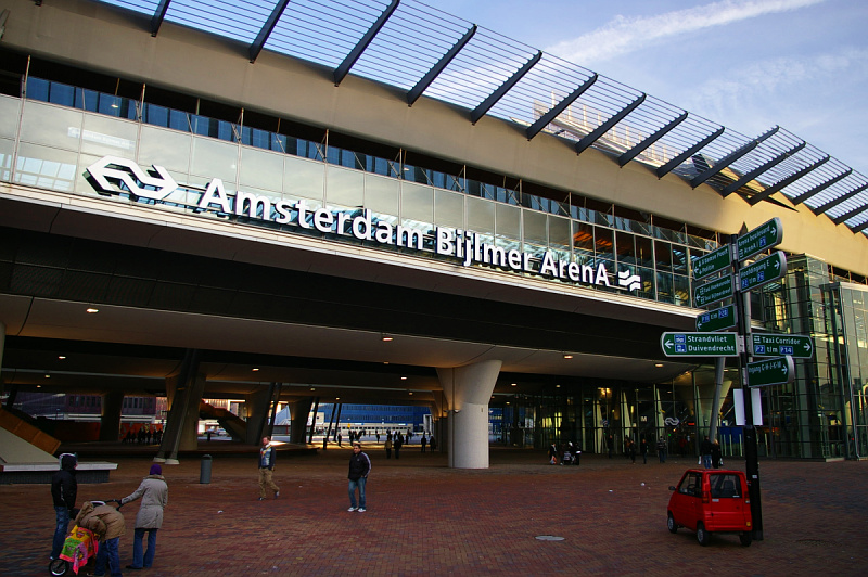 NS/GVB Amsterdam Bijlmer ArenA station, Netherlands